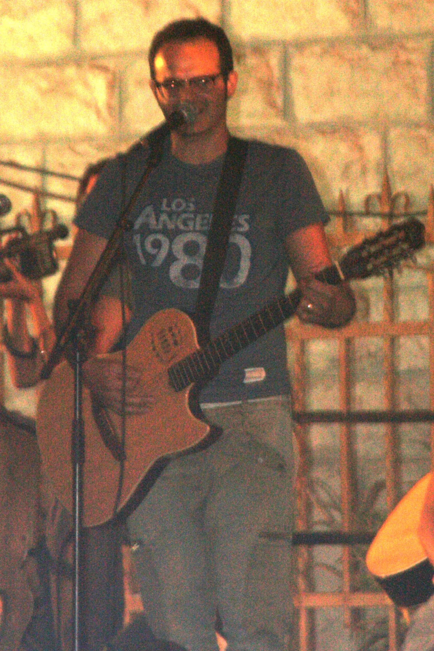 Avraham Tal performing at the July 30 rally of the 2011 Israeli housing protest, Jerusalem